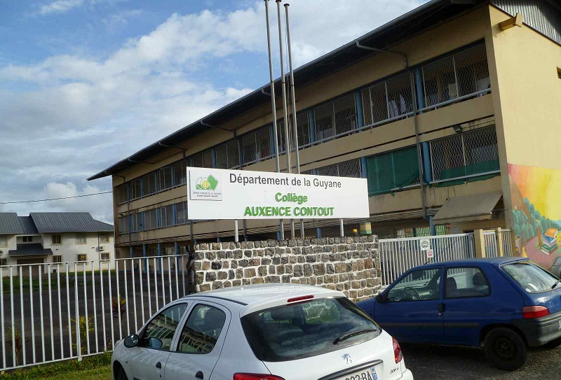 View of college Auxence Contout in Cayenne, French Guyana.